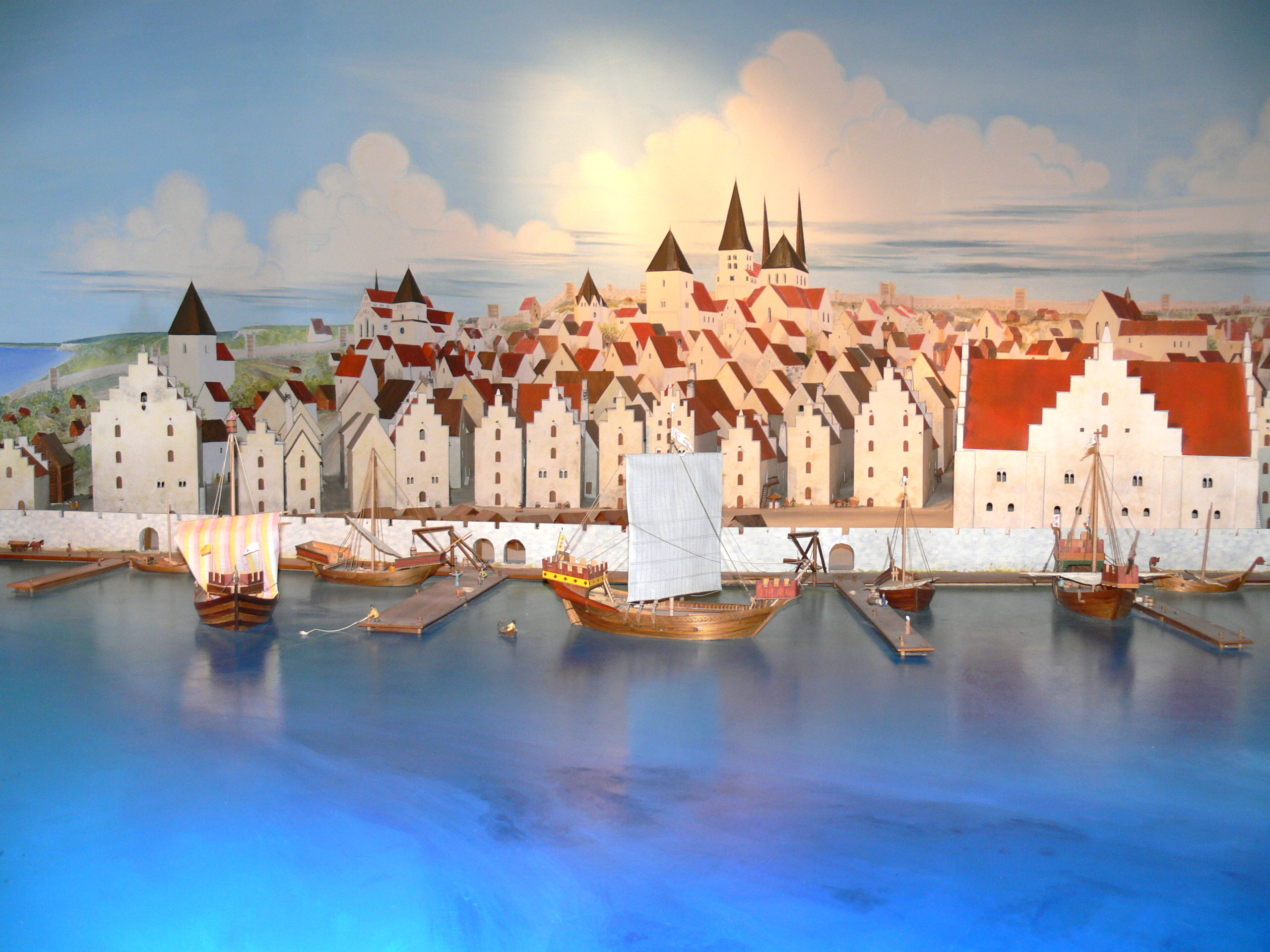 Fornsalen Museum, Visby ( Gotland ). Reconstruction of Visby harbour during the Middle Ages.